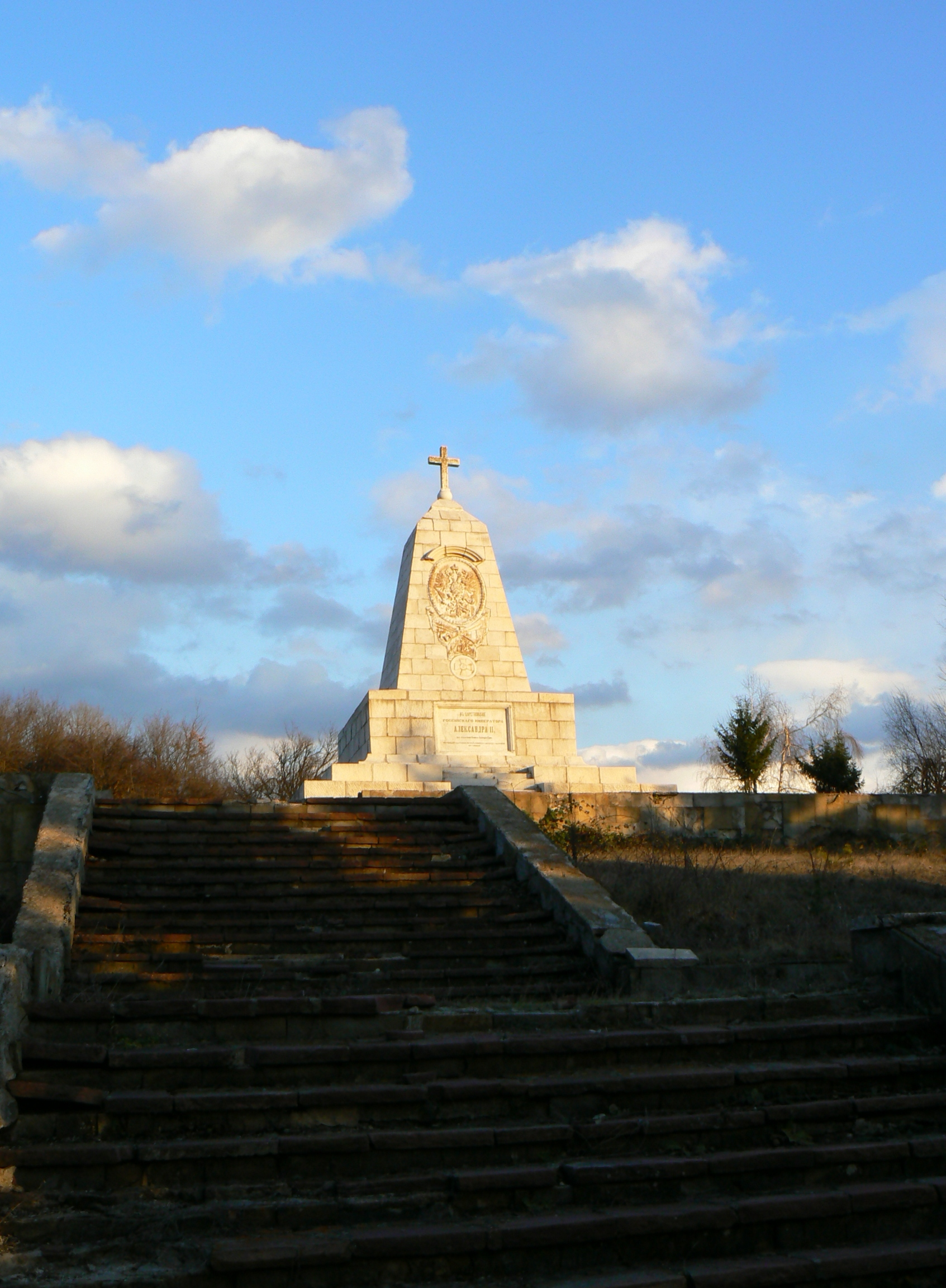 The memorial of Alexander II of Russia in Arabakonak Pass, Bulgaria